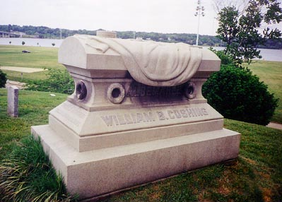 Commander Cushing's Tombstone